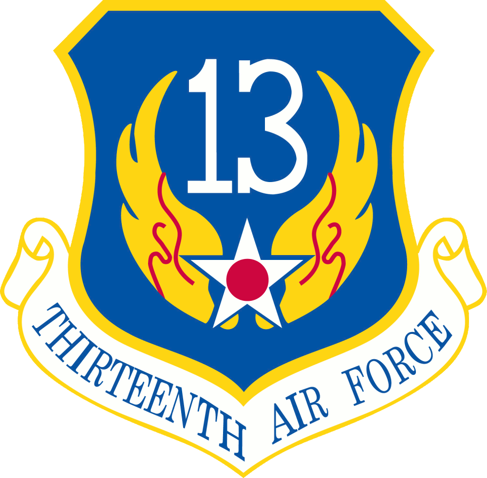 Emblem of the 13th Air Force of the United States Air Force